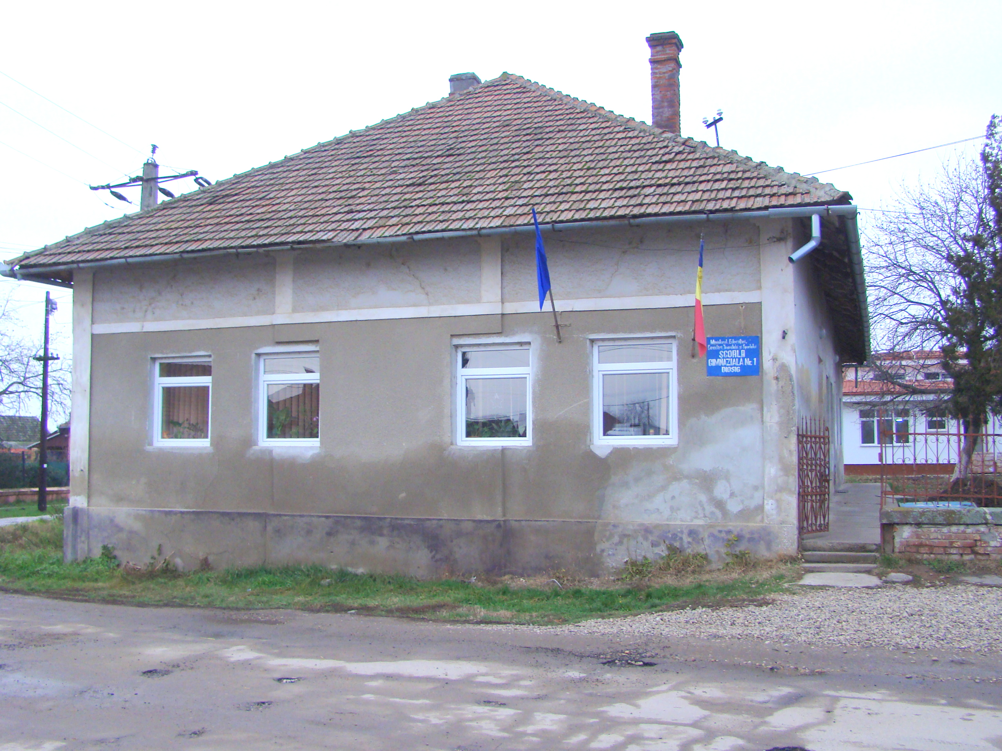 Diosig, Bihor county, Romania